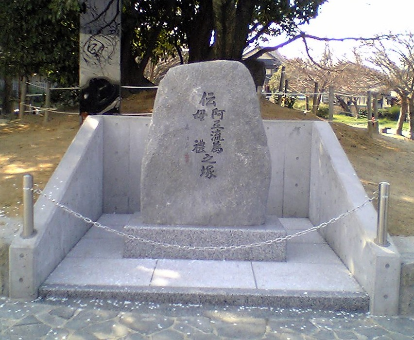 the monument of the tomb of Aterui and More in Hirakata, Osaka, Japan.